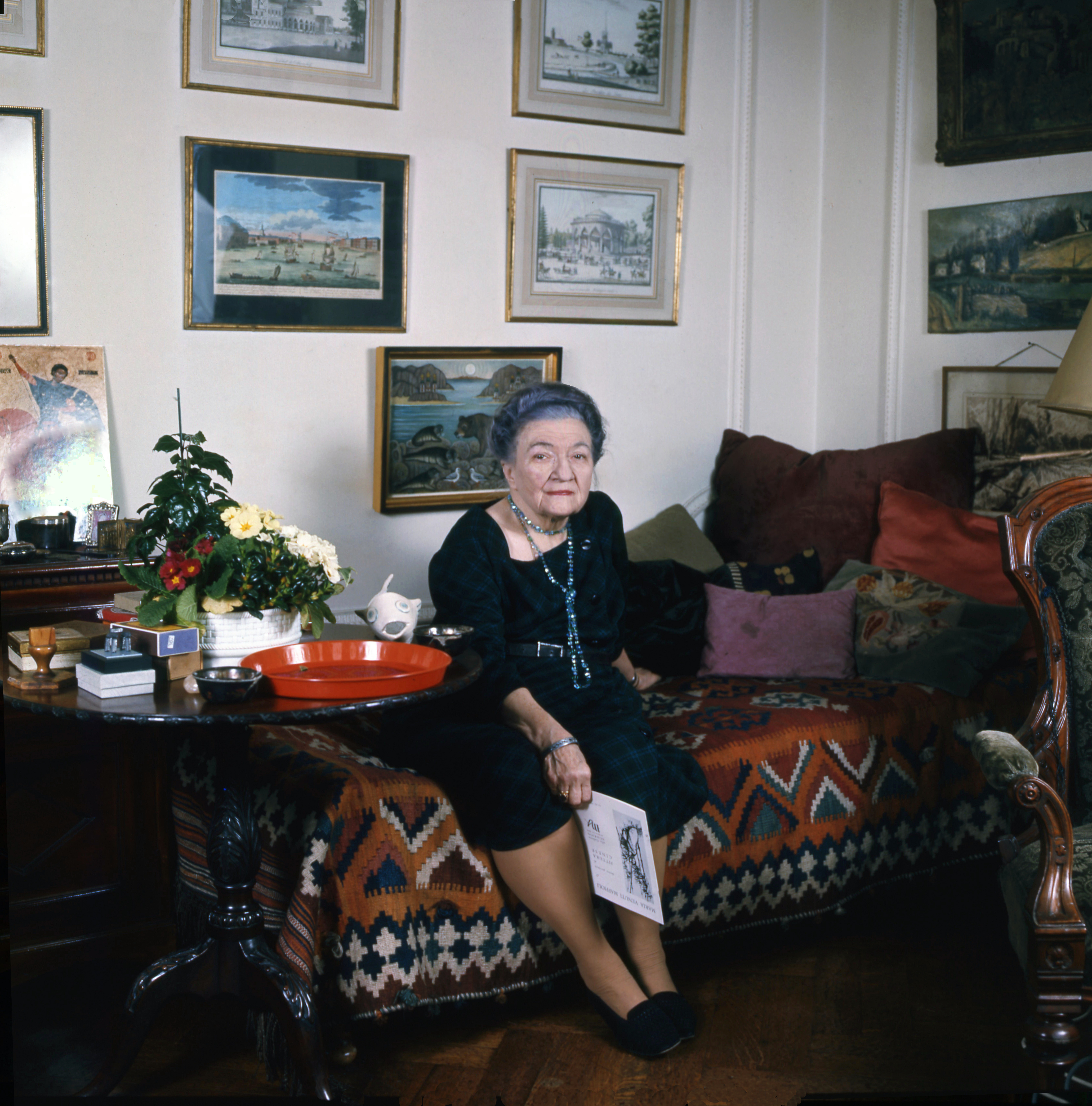 Moura Budberg, Baroness Budburg, taken in her apartment in London